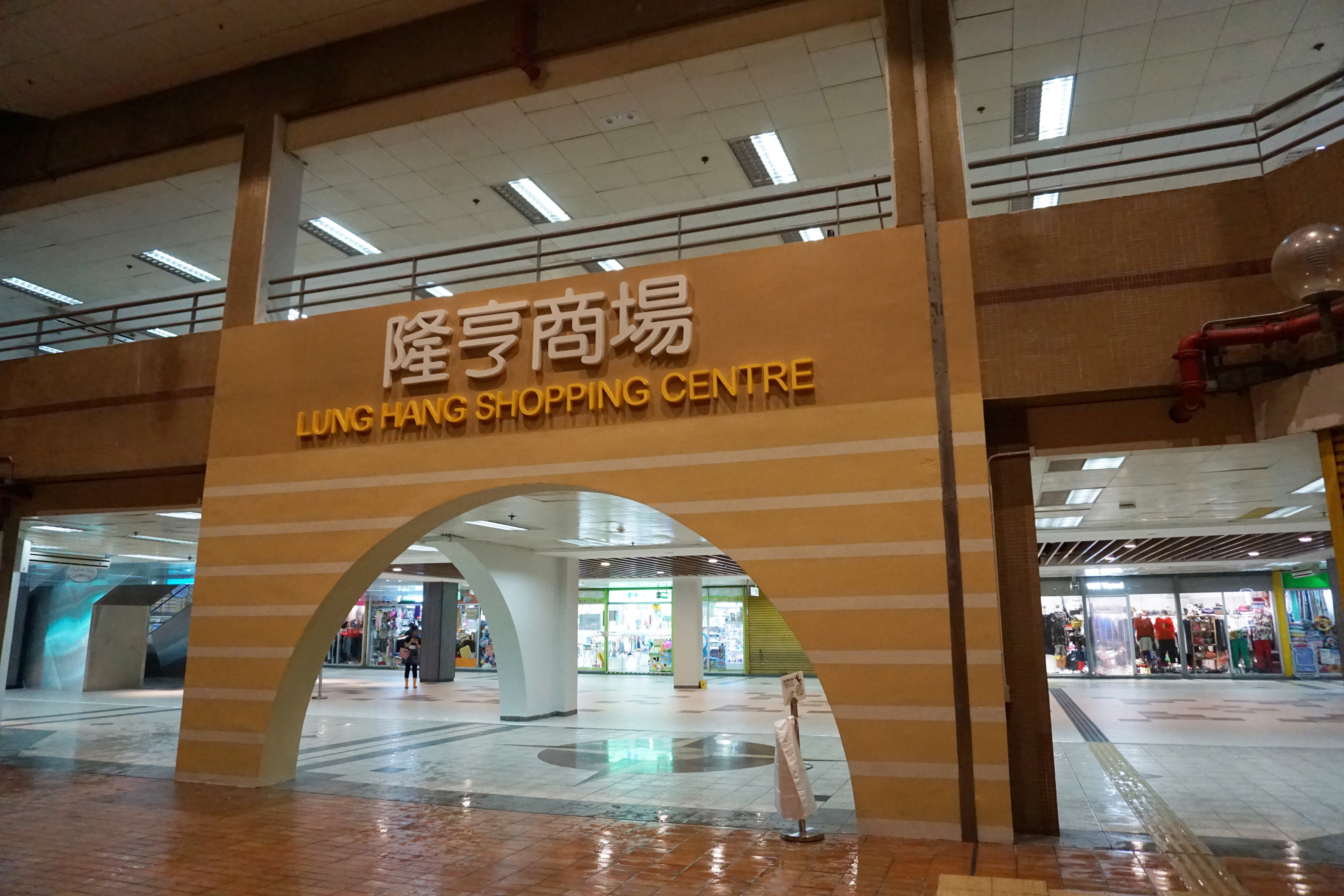 Lung Hang Shopping Centre in Tai Wai, Hong Kong.